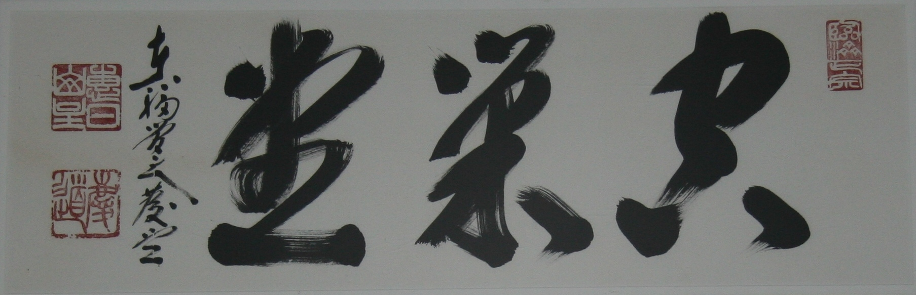 Here is the calligraphy Fukushima Roshi did of the characters for our temple Kusoudo at Empty Nest Zendo. He named the temple Ku for vast/empty (like sky) Sou=nest, do=way (like tao) He did this understanding that Empty Nest had a double meaning in English (home left by children, and the empty bird’s nest). The homonym he created with double meaning (kusoudo), sounds like the empty “sodo” or the empty monk’s hall. The sodo being the place where monk’s train. He was a very clever man.